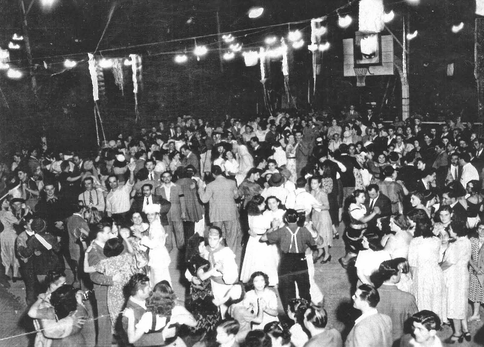 Buenos Aires, carnival, tango dance, 1950.